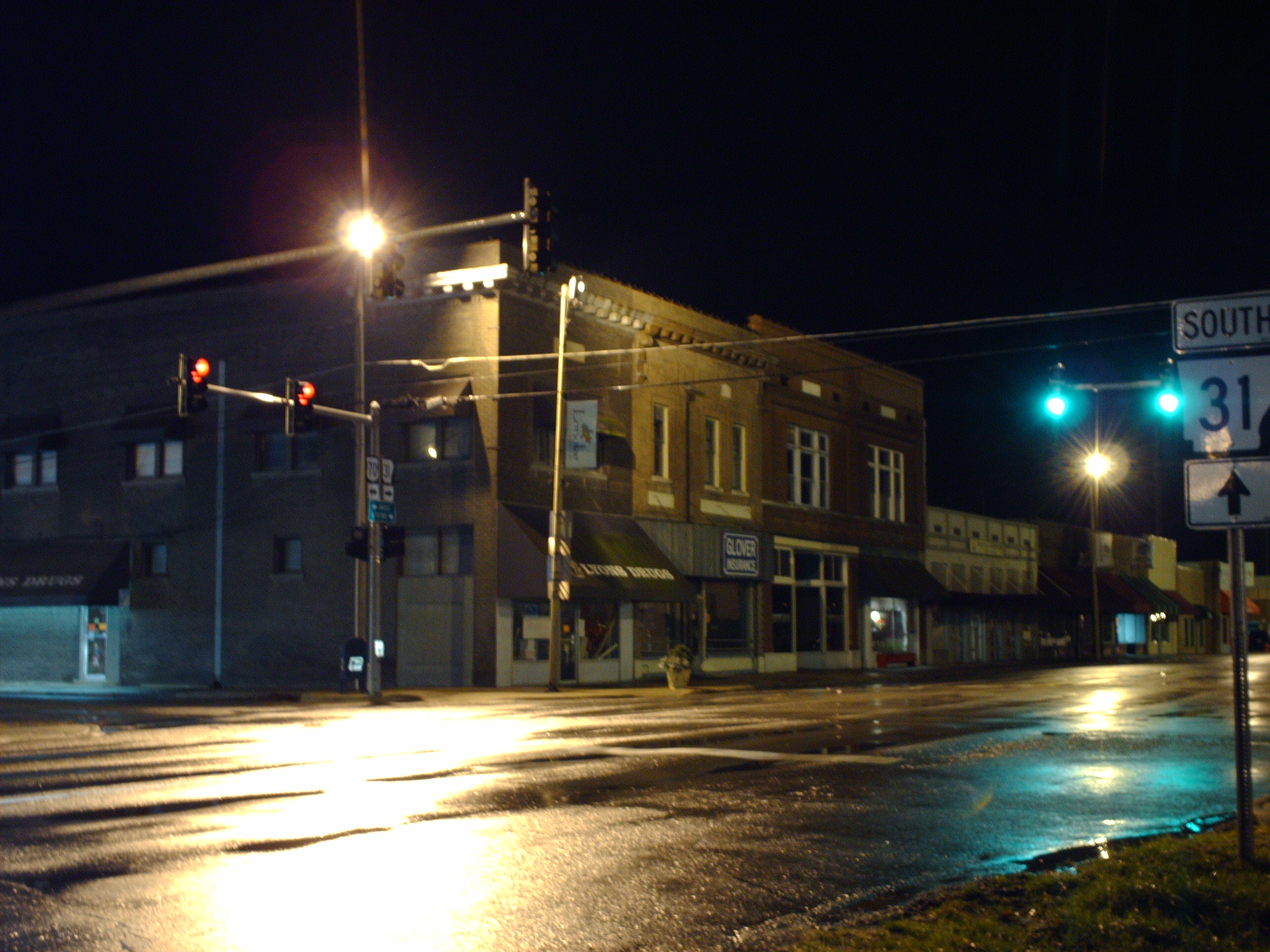 pic of the Lonoke stoplight I took beginning of 2006